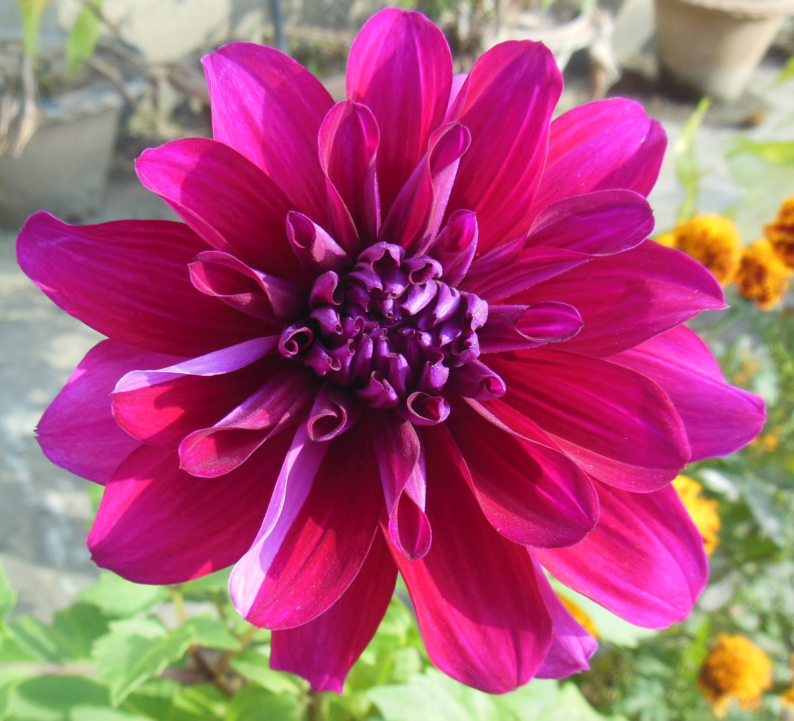 Woodland Merinda babylon purple Dahlia